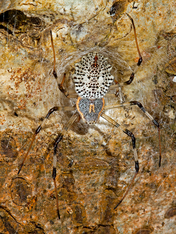 A female Herennia multipuncta with the characteristic yellowish, U-shaped patch near the front clearly visible